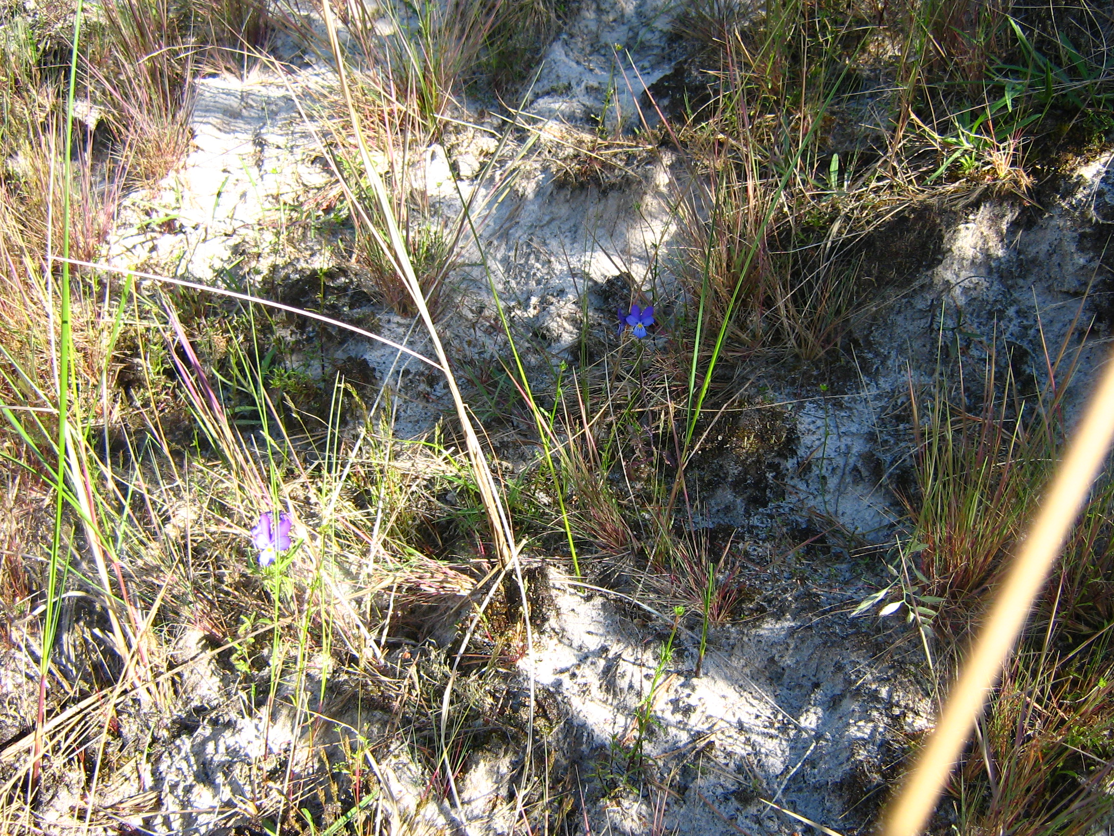 Marine heartsease (Viola tricolor maritima) in a natural habitat – grey dune. Slowinski National Park, Baltic Sea coast